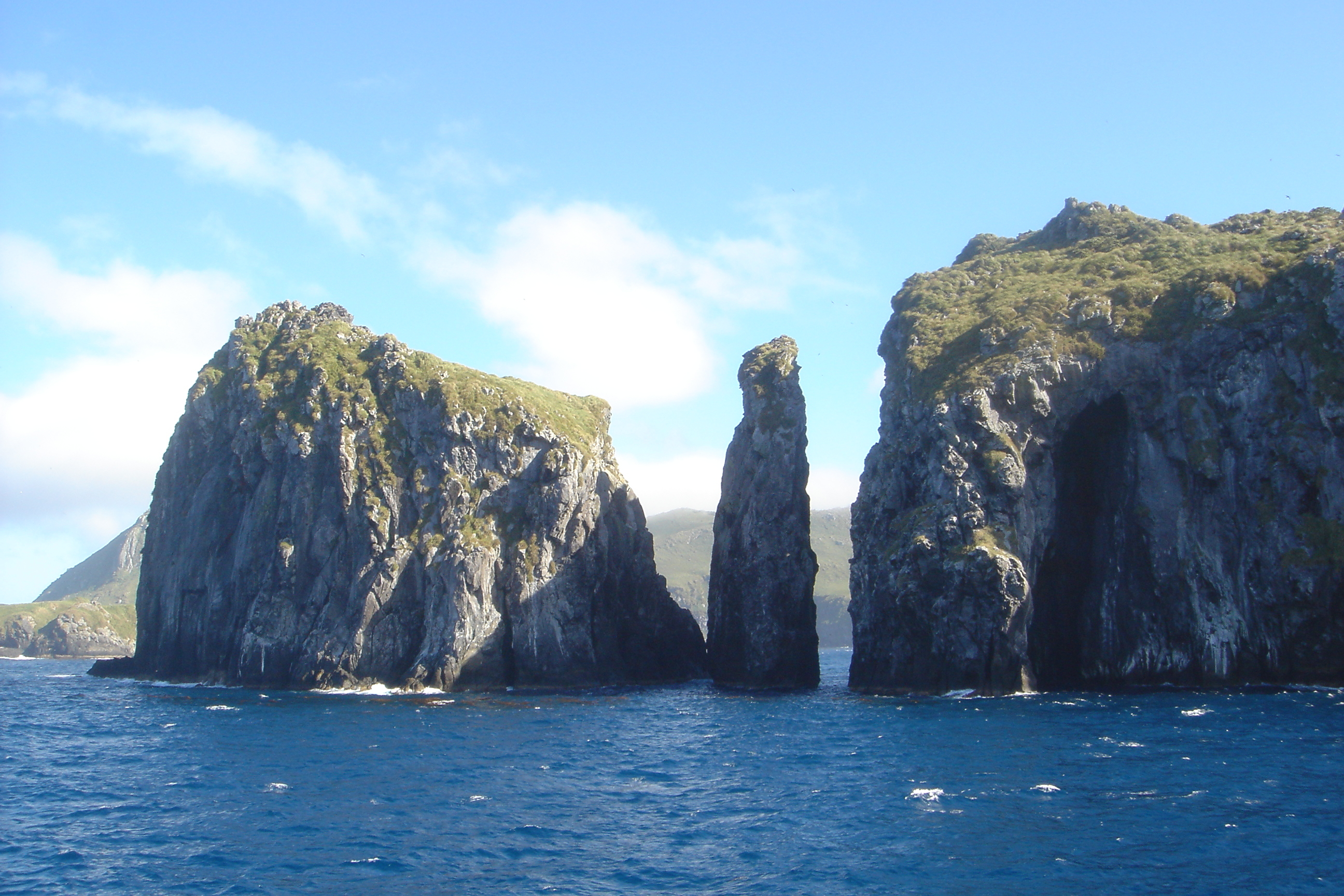 Gough and Inaccessible Islands (United Kingdom of Great Britain and Northern Ireland)